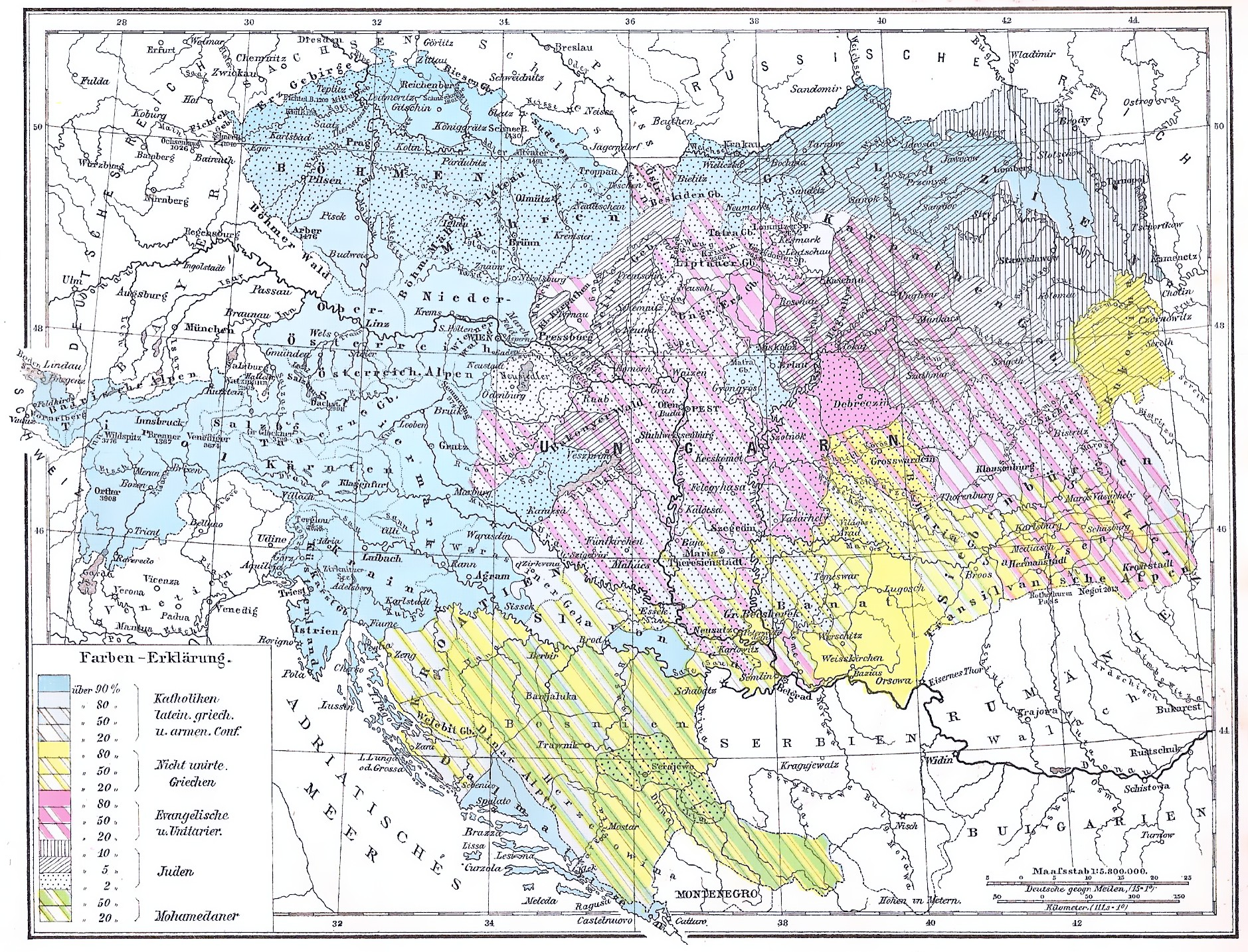 Religions in Austria-Hungary, Andrees Allgemeiner Handatlas, 1st Edition, Leipzig (Germany) 1881, Page 48, Map 2.